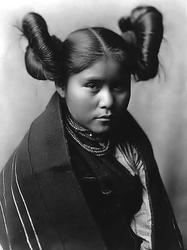 A Tewa Indian girl. From "The North American Indian" - by Edward S. Curtis.